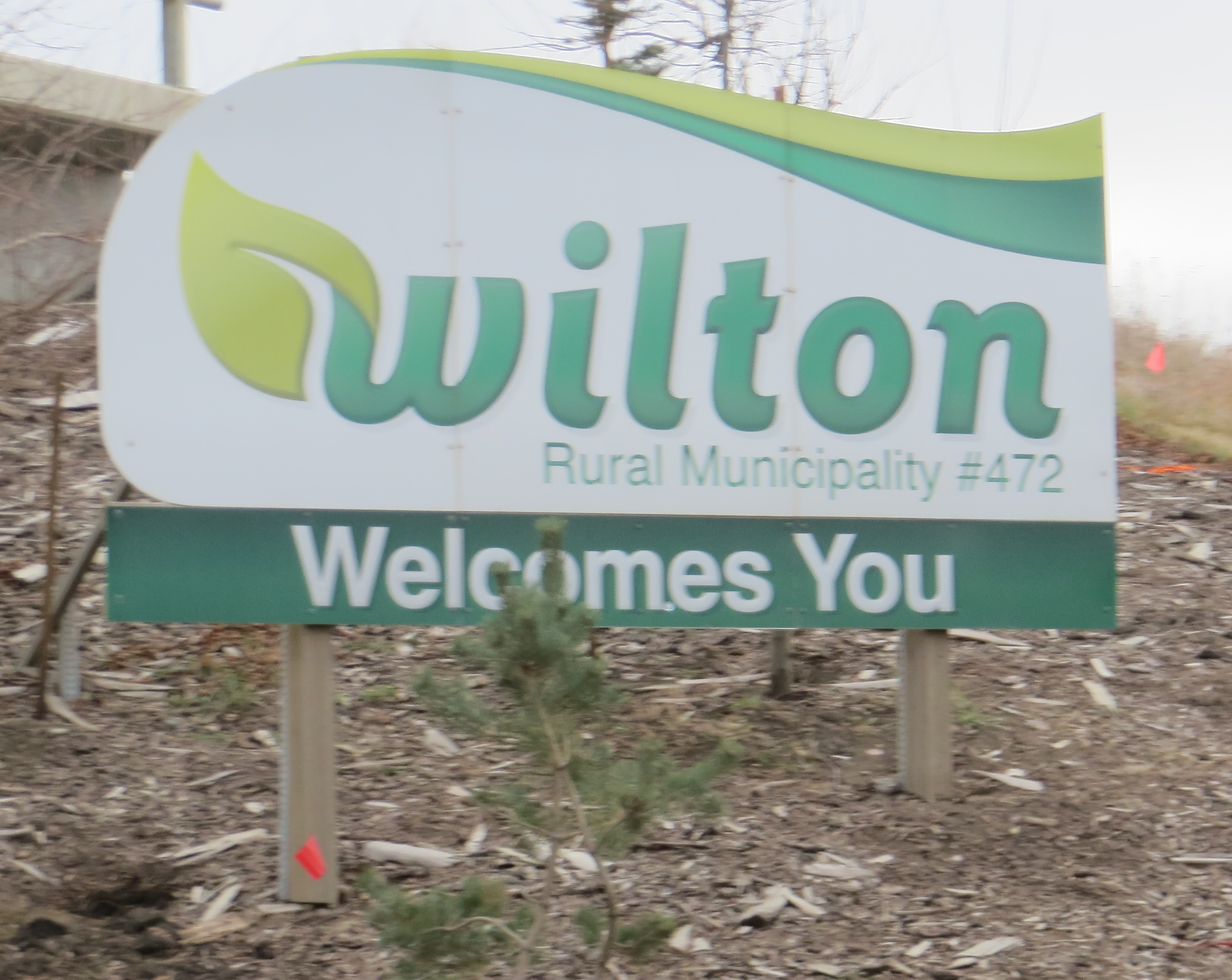 A sign welcoming motorists to the Rural Municipality of Wilton, Saskatchewan, Canada.